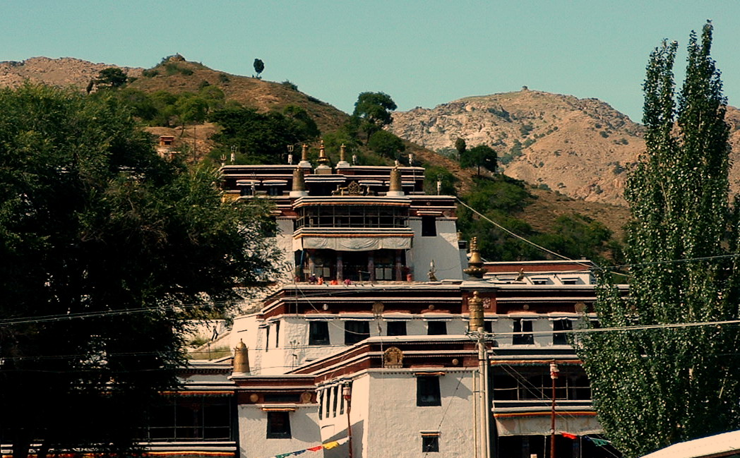 Picture taken by Lukacs at Wudangzhao, a Tibetan Buddhist temple in Inner Mongolia Automonous Region, the PRC.